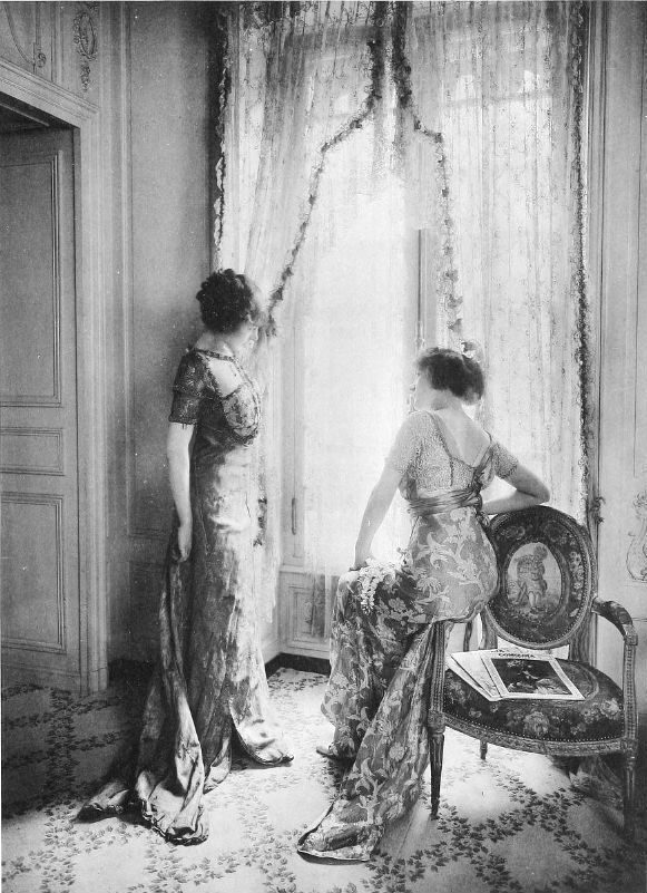 Callot Soeurs' models by the window c.1910